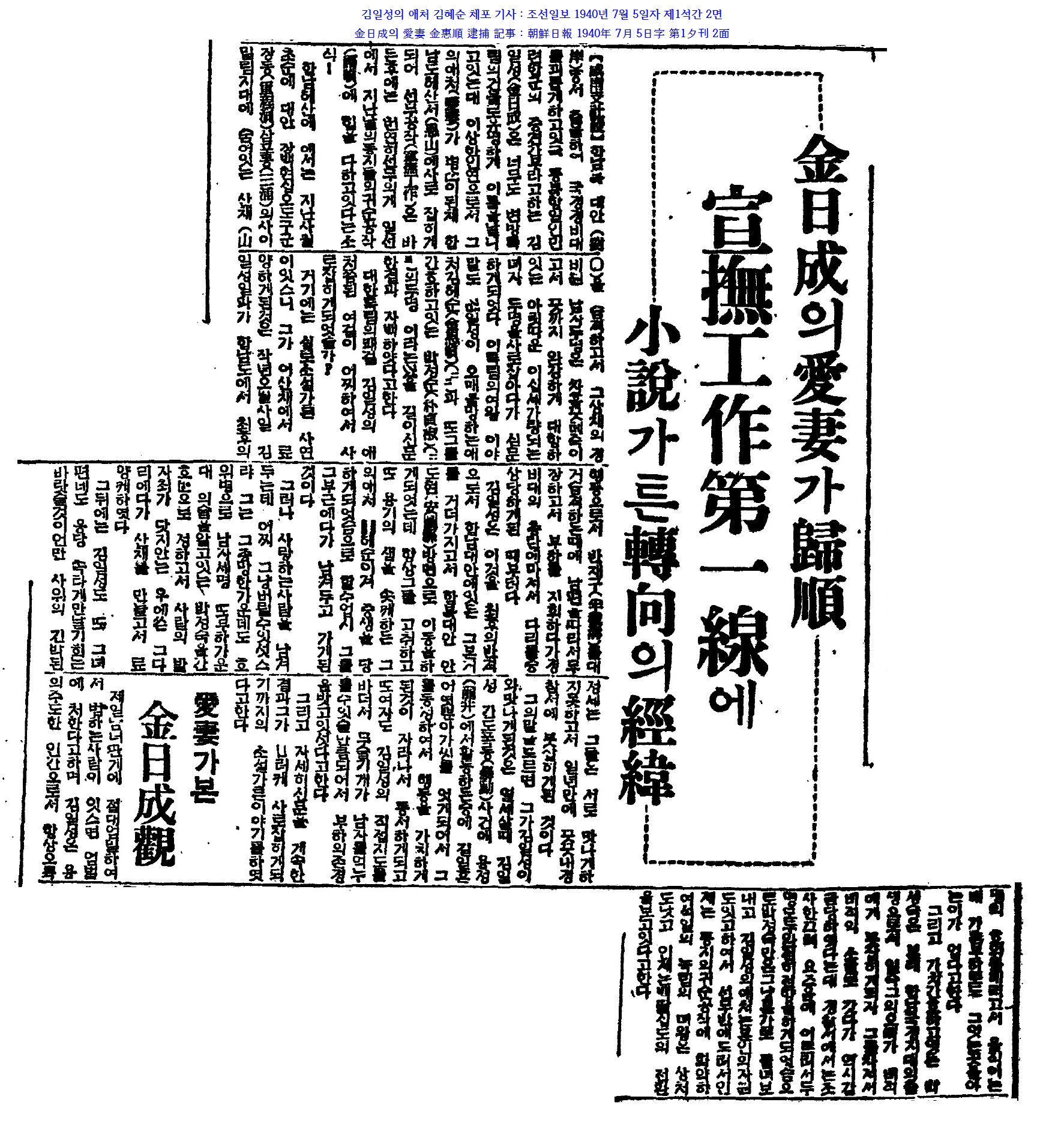 1940.07.05 Chosun Ilbo article reporting the arrest of Kim Hyesun, wife of Kim Il Sung.